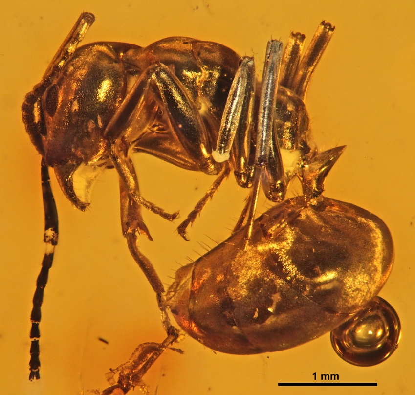 Profile view a Dolichoderus balticus worker. Middle Eocene; Baltic amber, Samland Peninsula, Kalingrad, Russia Museum fur Naturkunde Berlin, Germany. Specimen MBI5850